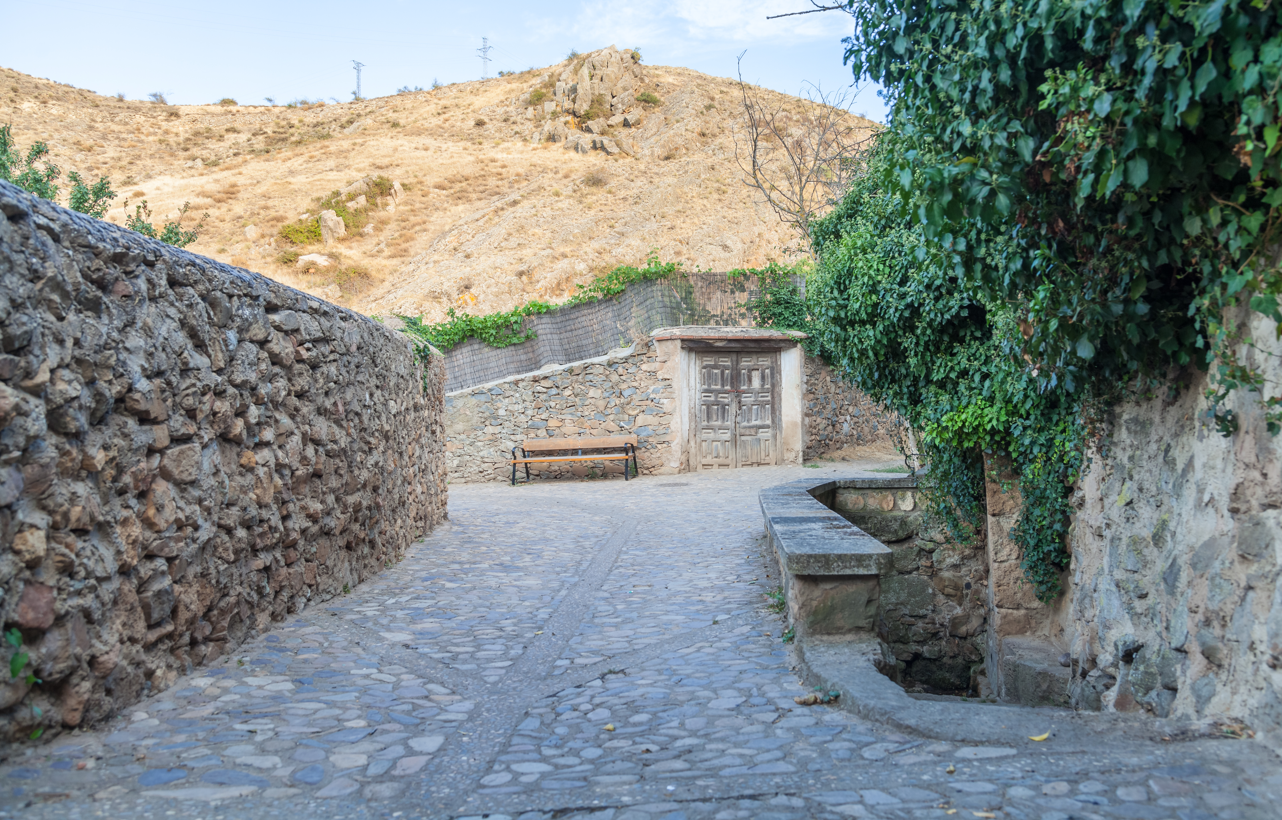 Fuente de los Caños, Ágreda, Spain